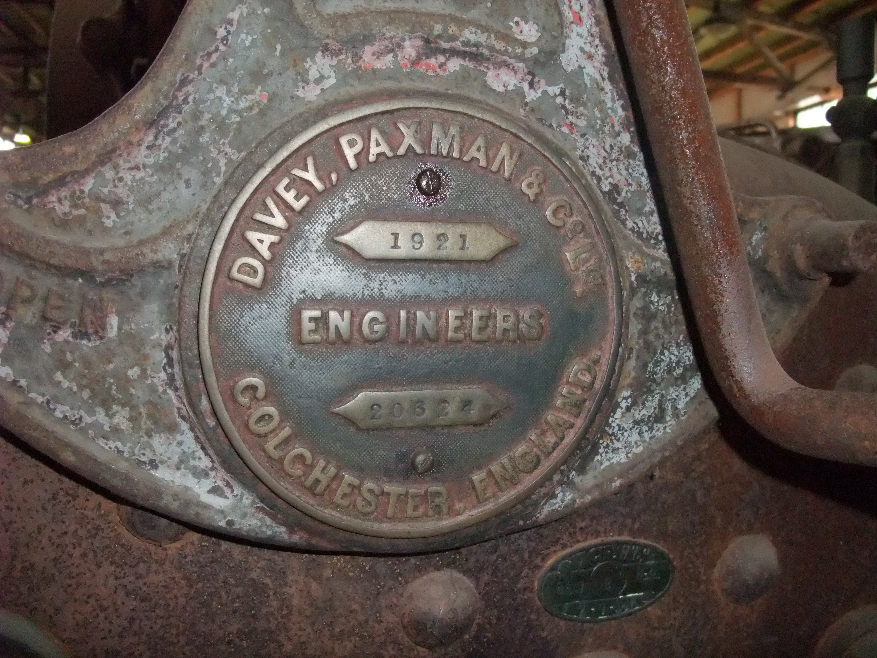 Davey Paxman steam engine at Depot Monumentenhalle of Deutsches Technikmuseum Berlin. Inscription: DAVEY, PAXMAN & Co Ltd 1921 ENGINEERS 20624 COLCHESTER, ENGLAND